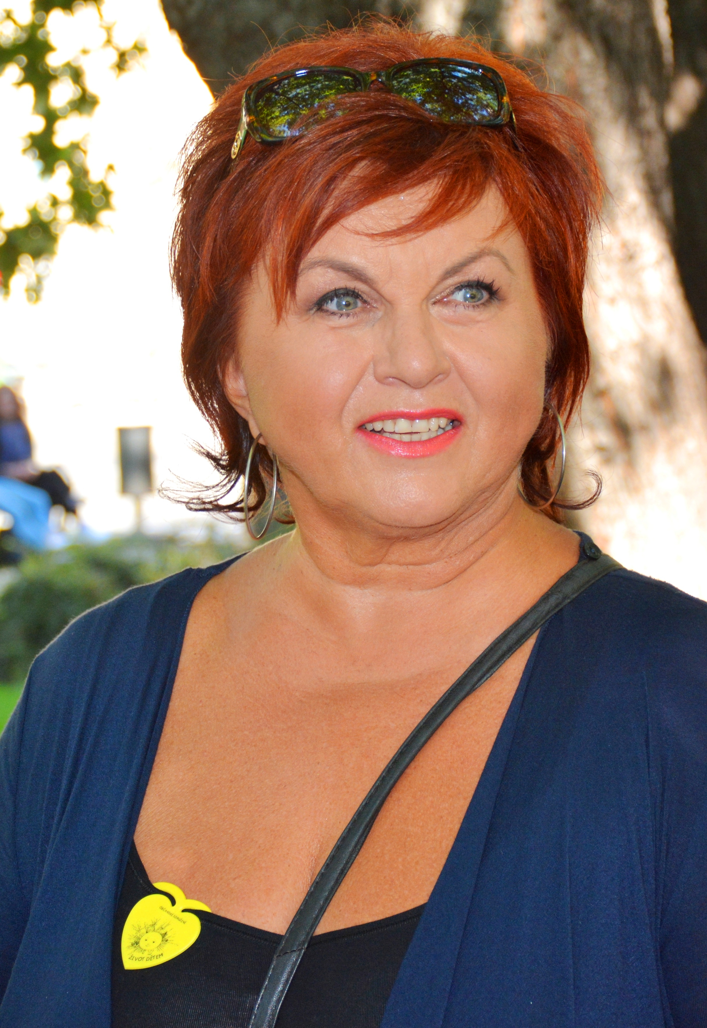 Hana Křížková, Czech vocalist